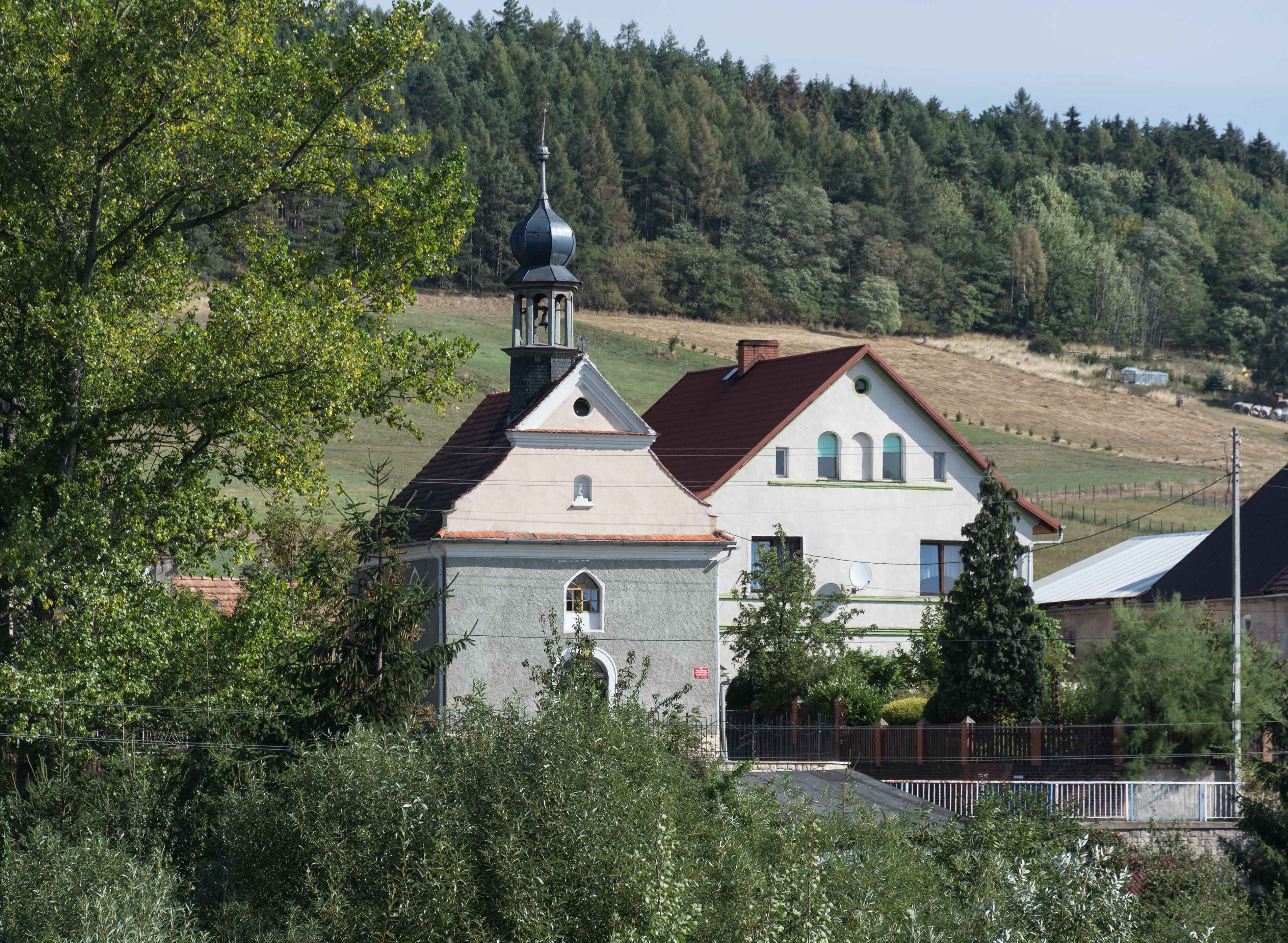 Church of St. Anthony in Gołogłowy